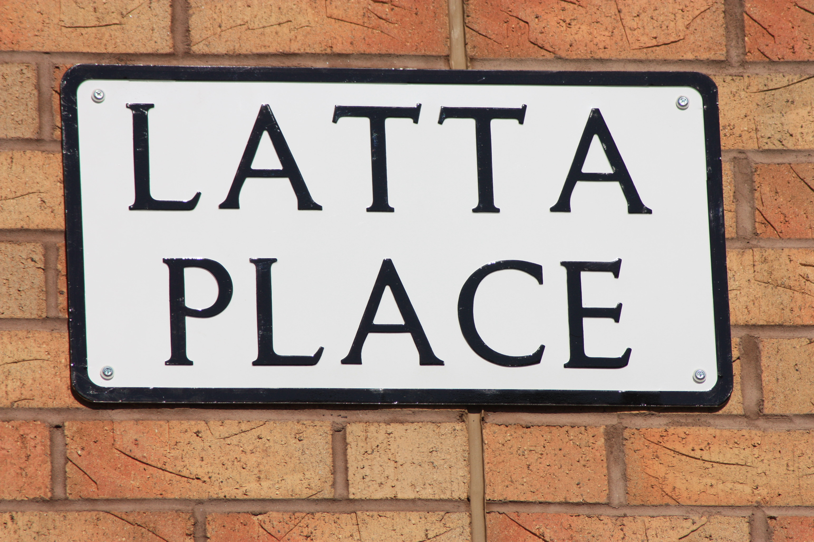 Street sign for Latta Place in Edinburgh